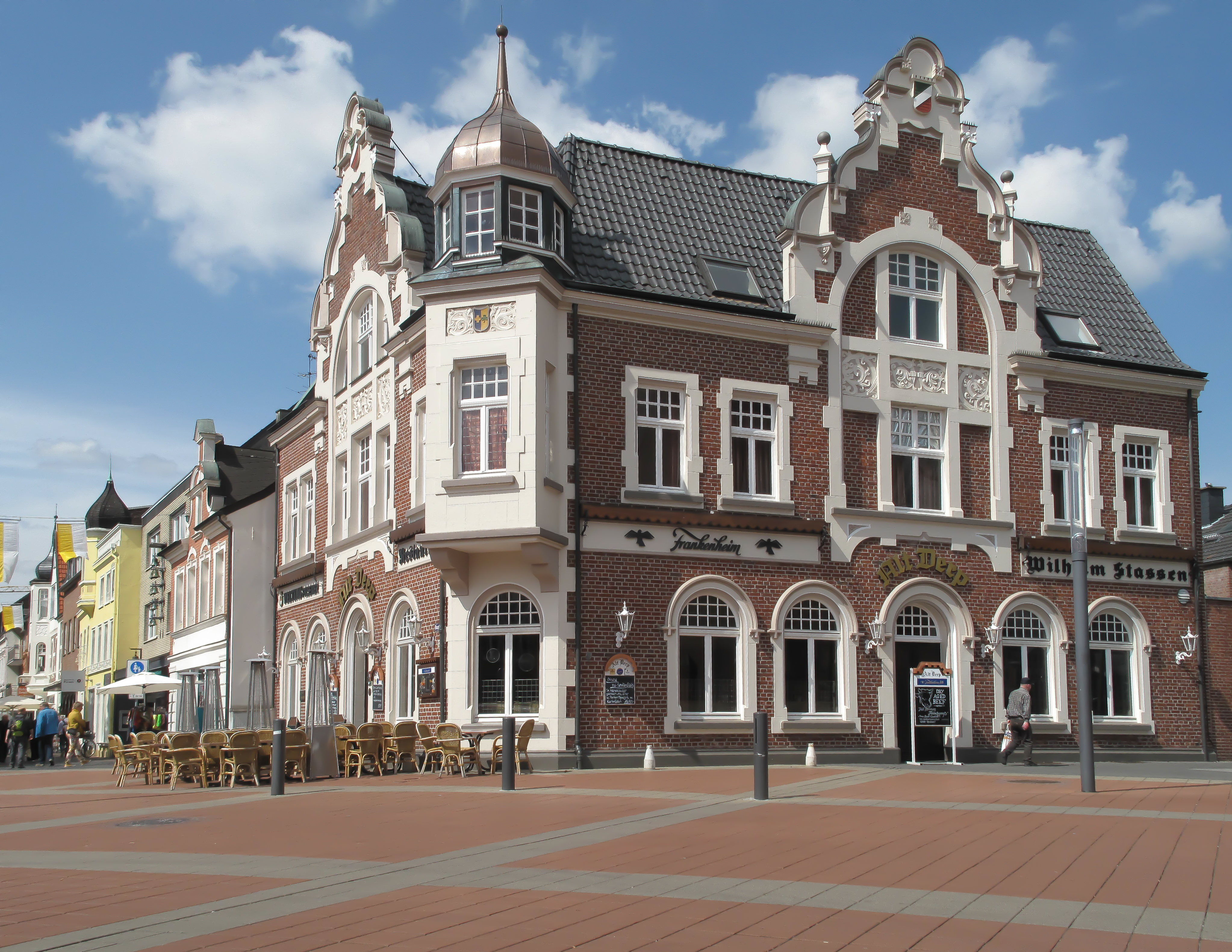 Kevelaer, monumental pand house at Hauptstrasse 63